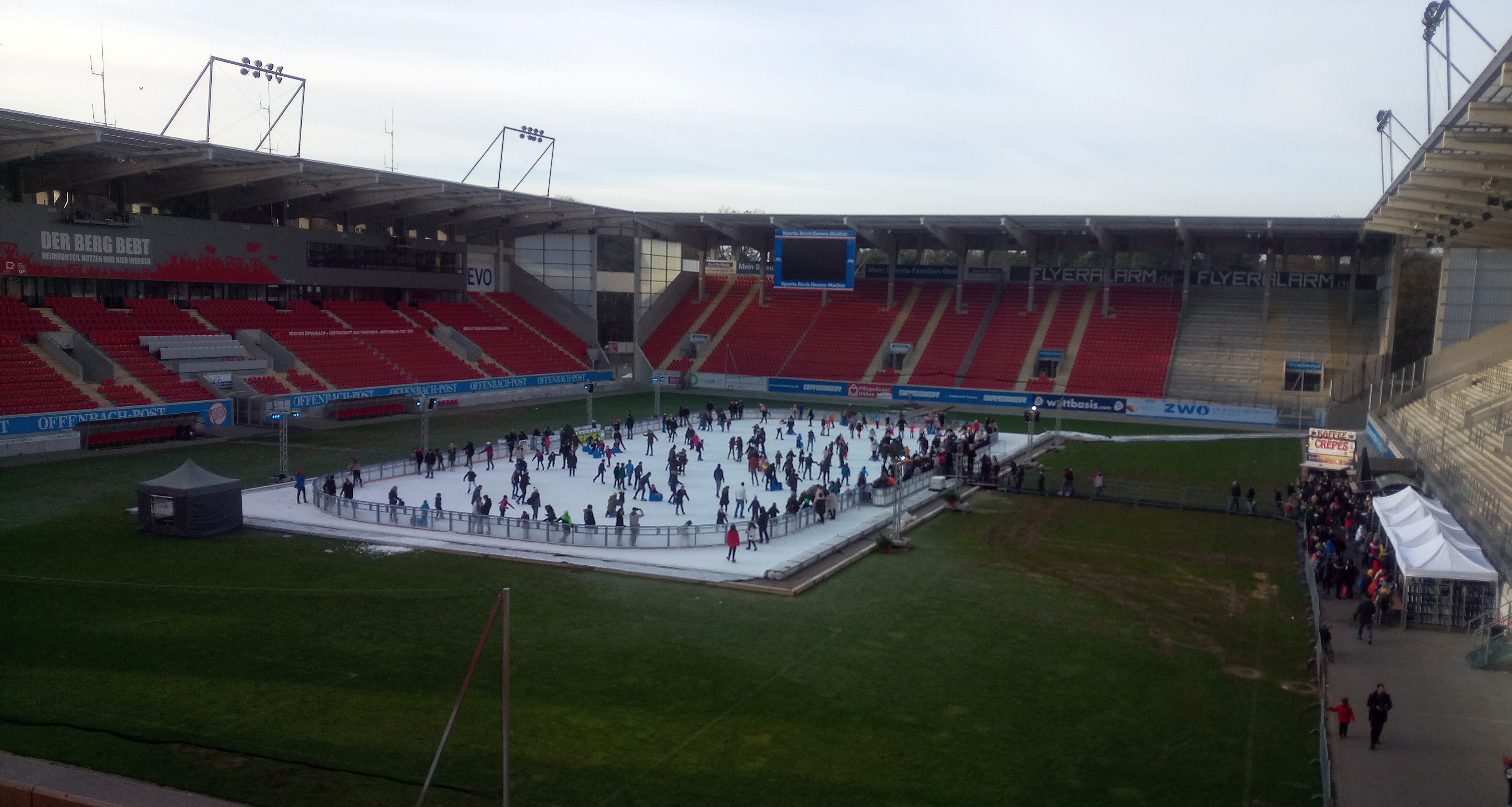 Mobile skating rink in olympic size.